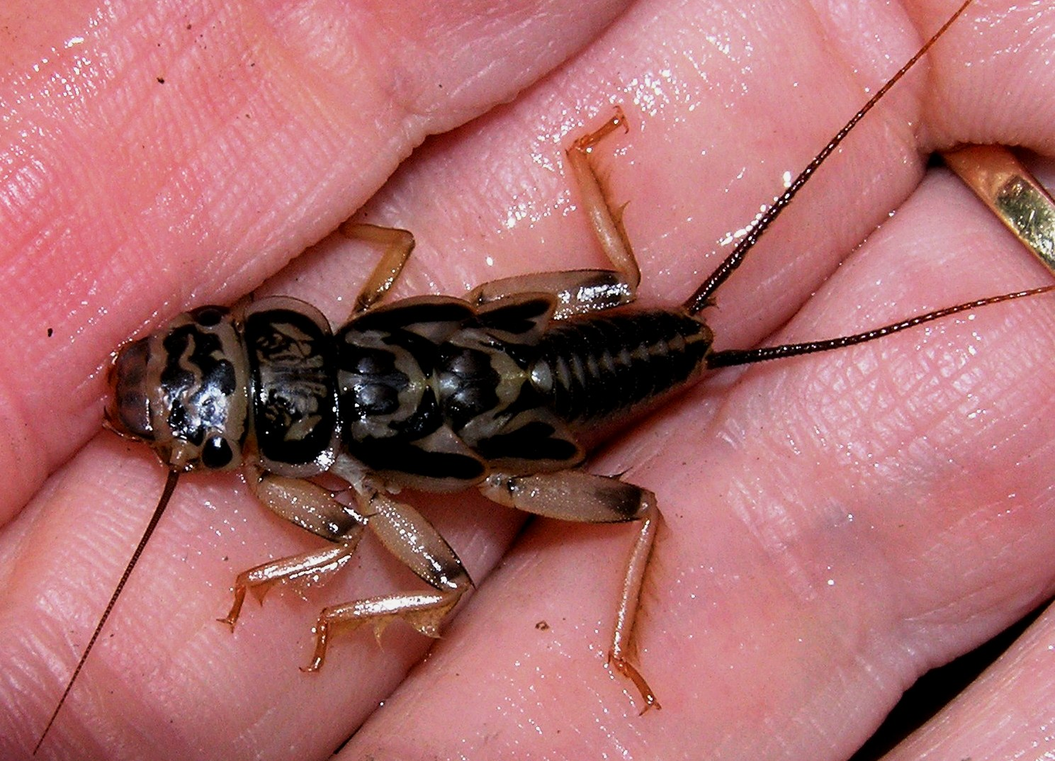 Acroneuria abnormis: Nymph from Kankakee River, NW Indiana, April 2006.